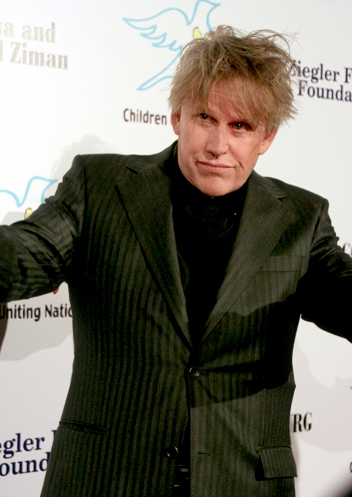 Gary Busey at the Billboard-Children Uniting Nations after-party red carpet, 2008